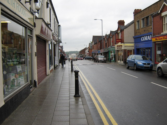 High Street, Biddulph, near to Biddulph, Staffordshire, Great Britain. Looking in a northerly direction along the High Street. Biddulph is a small, former mining, town in the Staffordshire Moorlands. Over the past few years it has been (and still is) going through a regeneration scheme which has breathed new life into what was a 'dying' town centre.